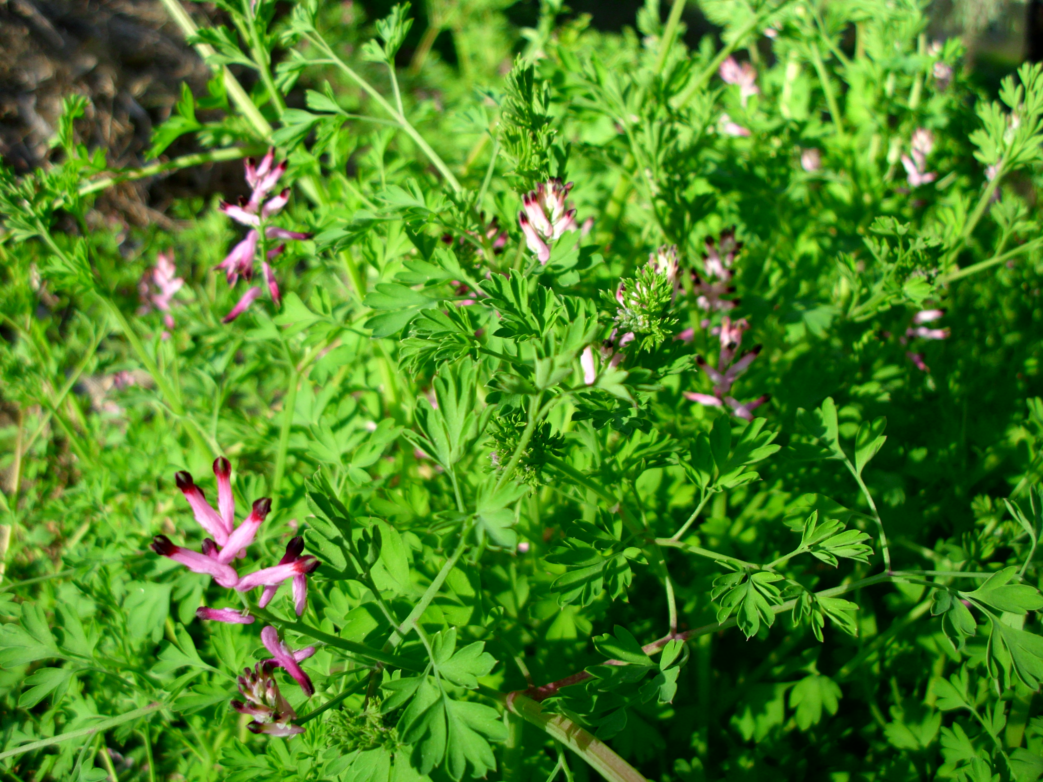 Fumaria muralis growing on the levee next to the Murrumbidgee River in Wagga Wagga, New South Wales, Australia.